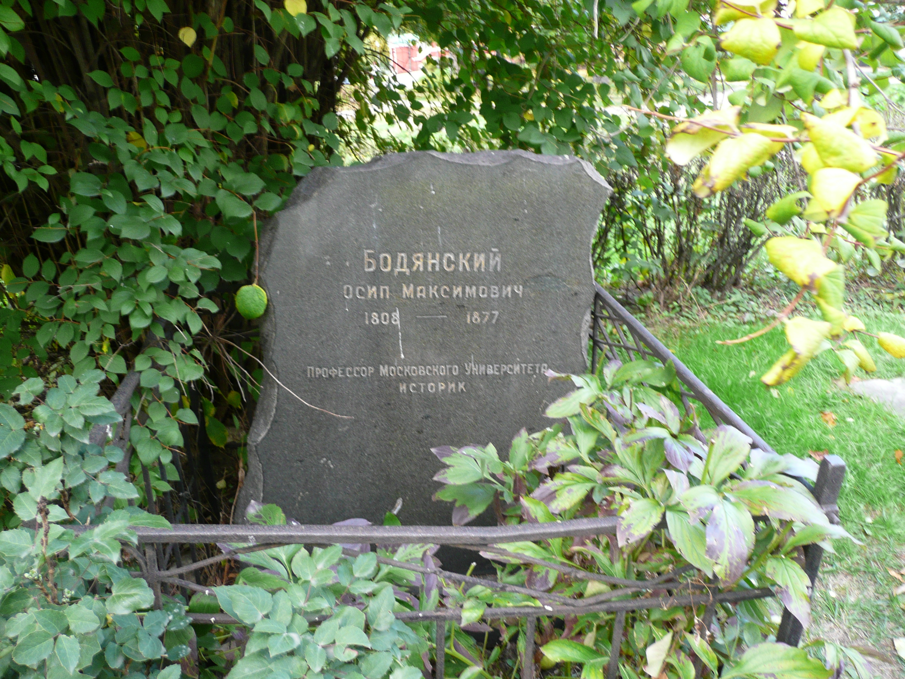 Tomb of Osip Bodyansky in the Novodevichy Convent